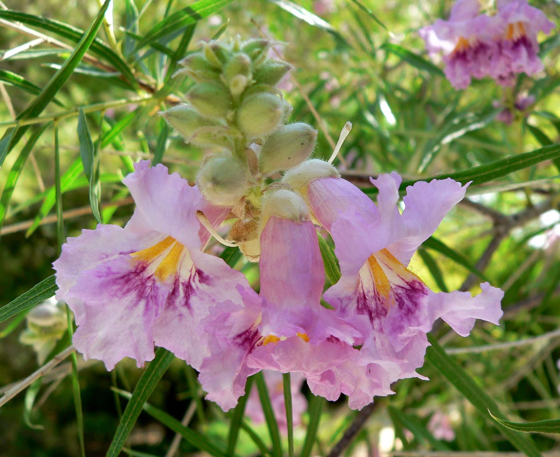 Photo of Chilopsis linearis (desert willow) at the Springs Preserve garden in Las Vegas, Nevada